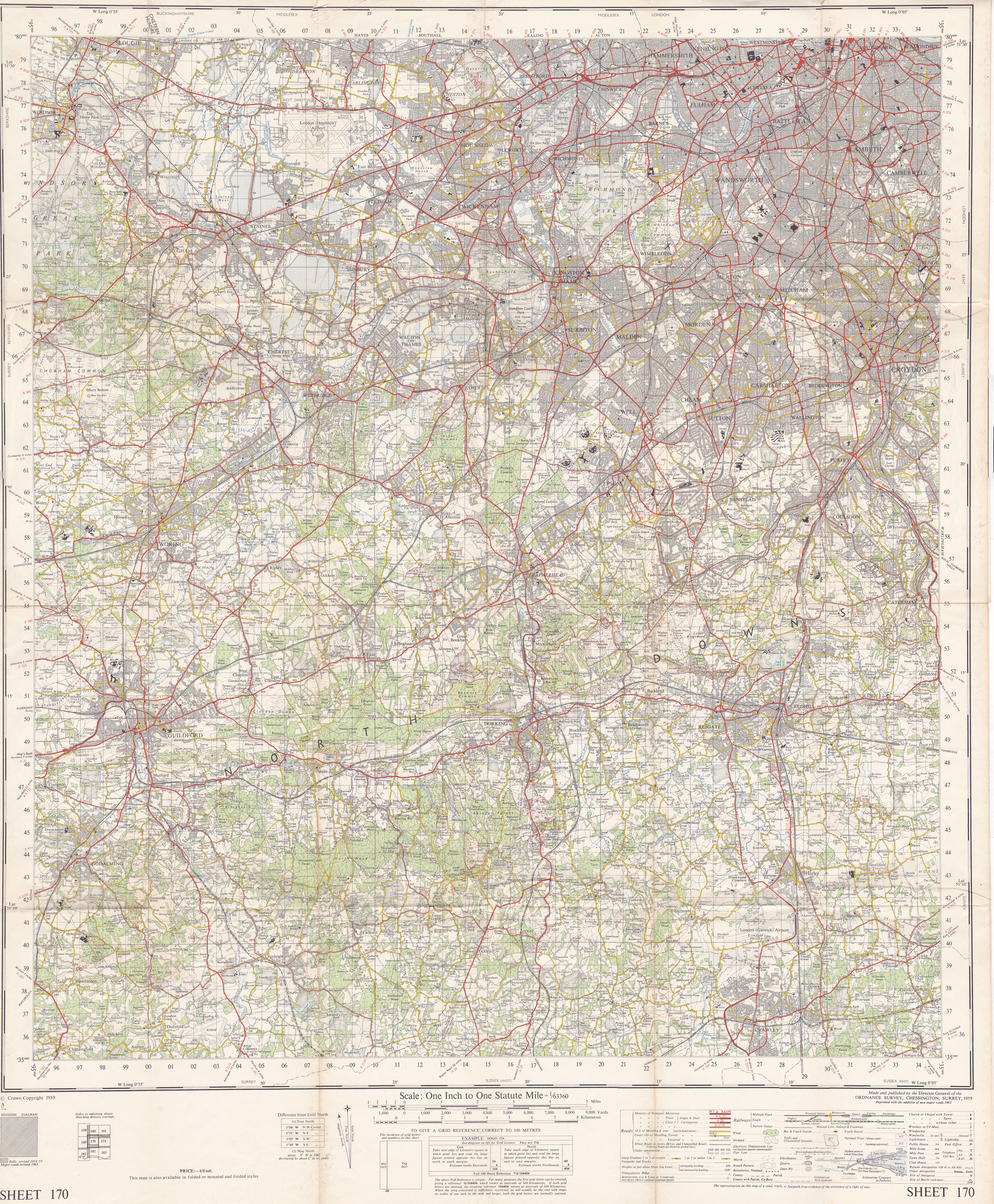 A stitch of scans of Ordnance Survey 1:63360 seventh series sheet 170 London S.W. published 1959. 1962 reprint.